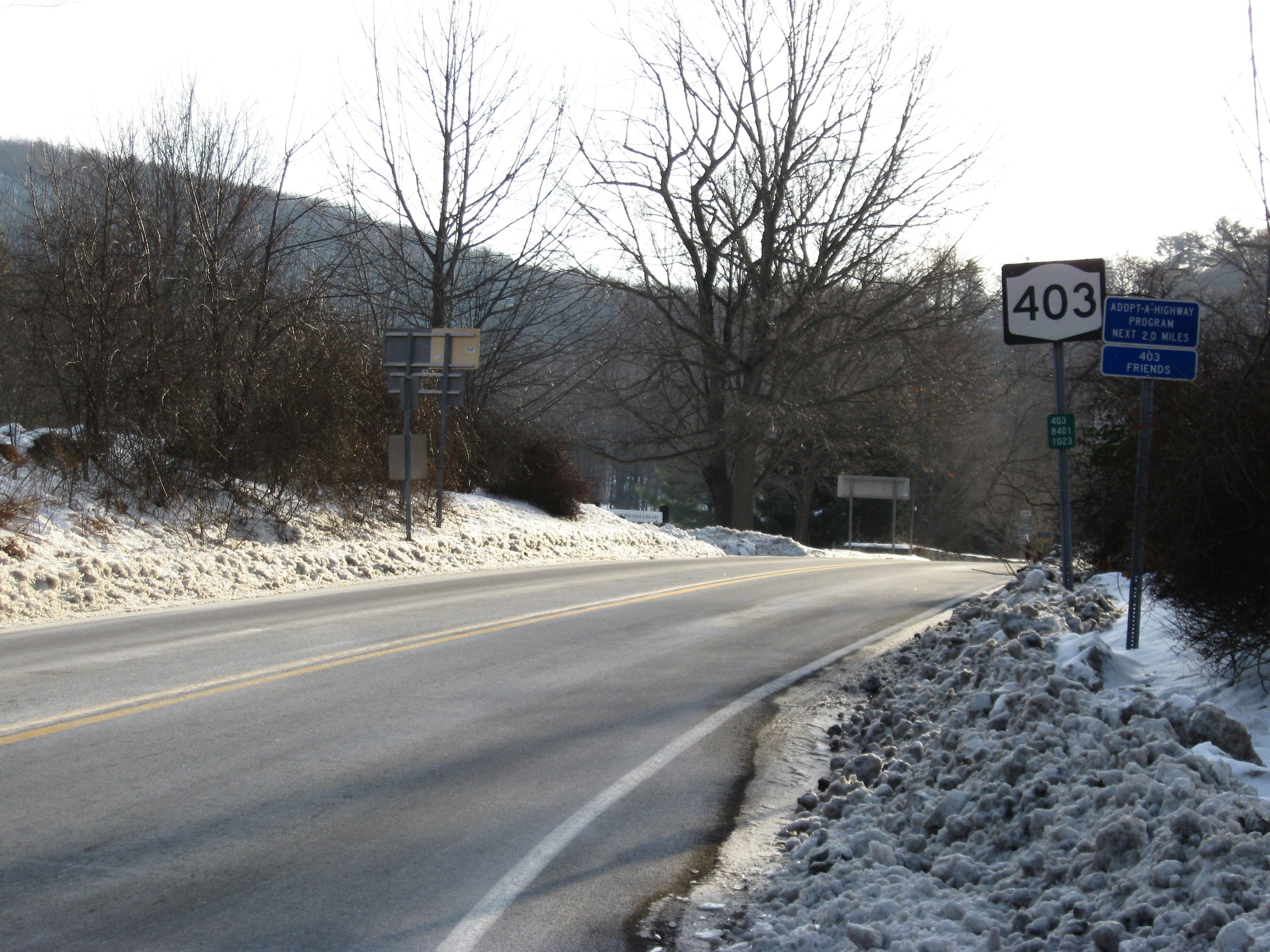 The northern beginning of New York State Route 403 just east of the intersection with NY 9D in the Town of Philipstown, New York. The entrance to the Desmond-Fish Library is in the background, just on the left.